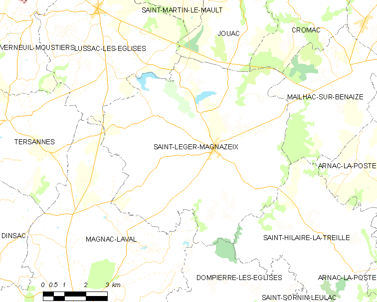 Map of French municipality Saint-Léger-Magnazeix